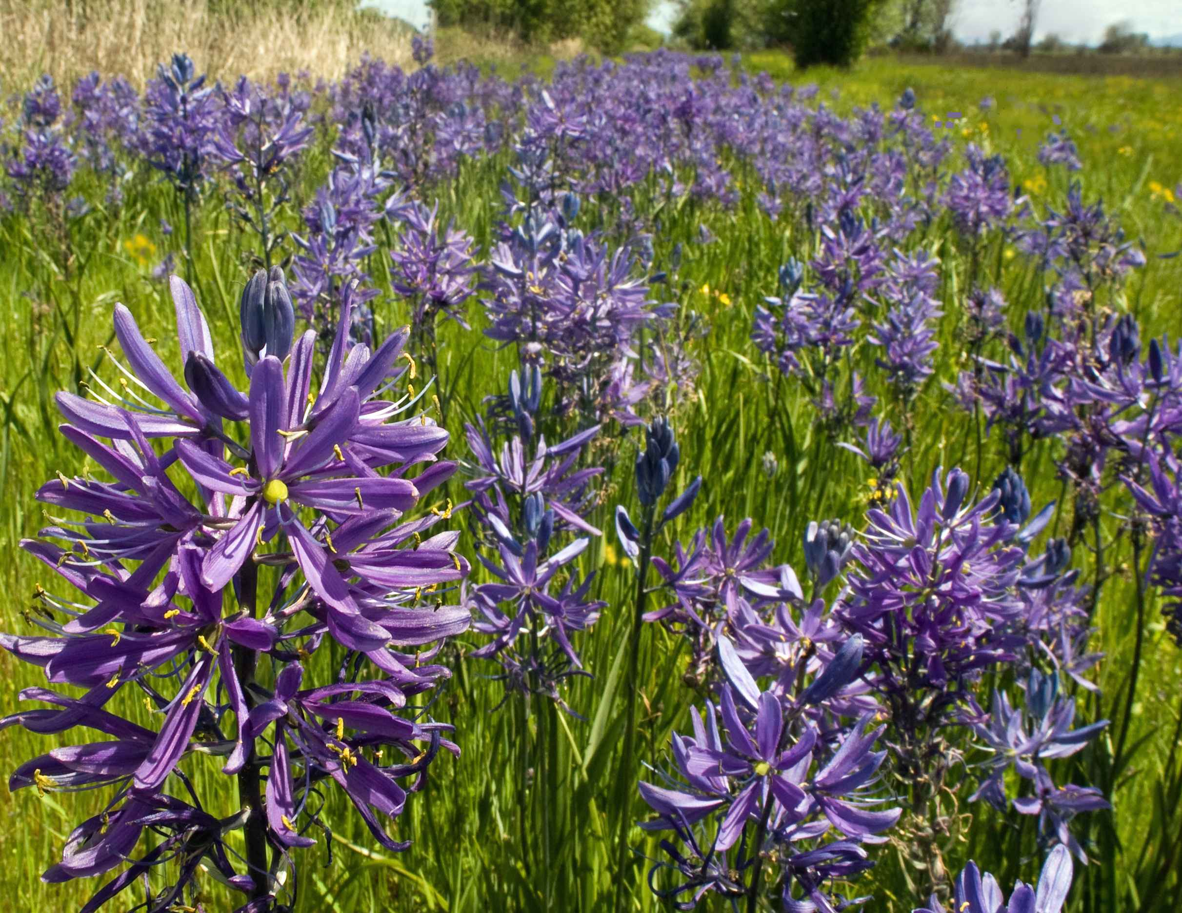 Image title: Camassia leichtlinii — Large Camas. Native to the western U.S and British Columbia. Image from Public domain images website